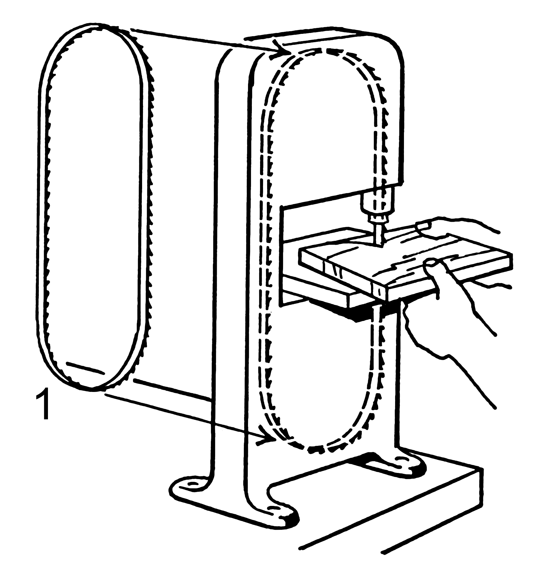 Line art drawing of a band saw. Blade